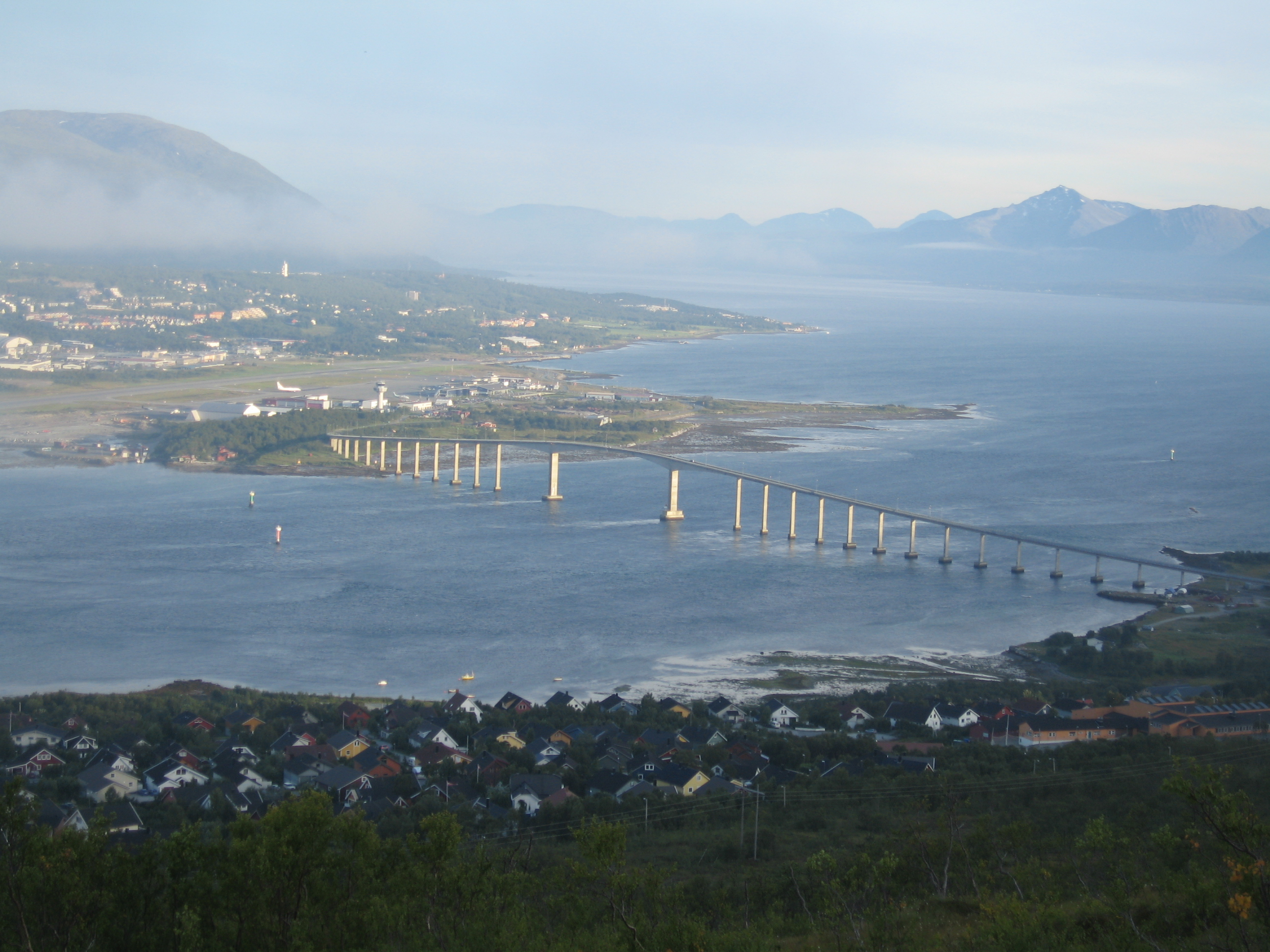 Sandnessundbrua with parts of Tromsø airport. August 2006. Photo: Guttorm Raknes